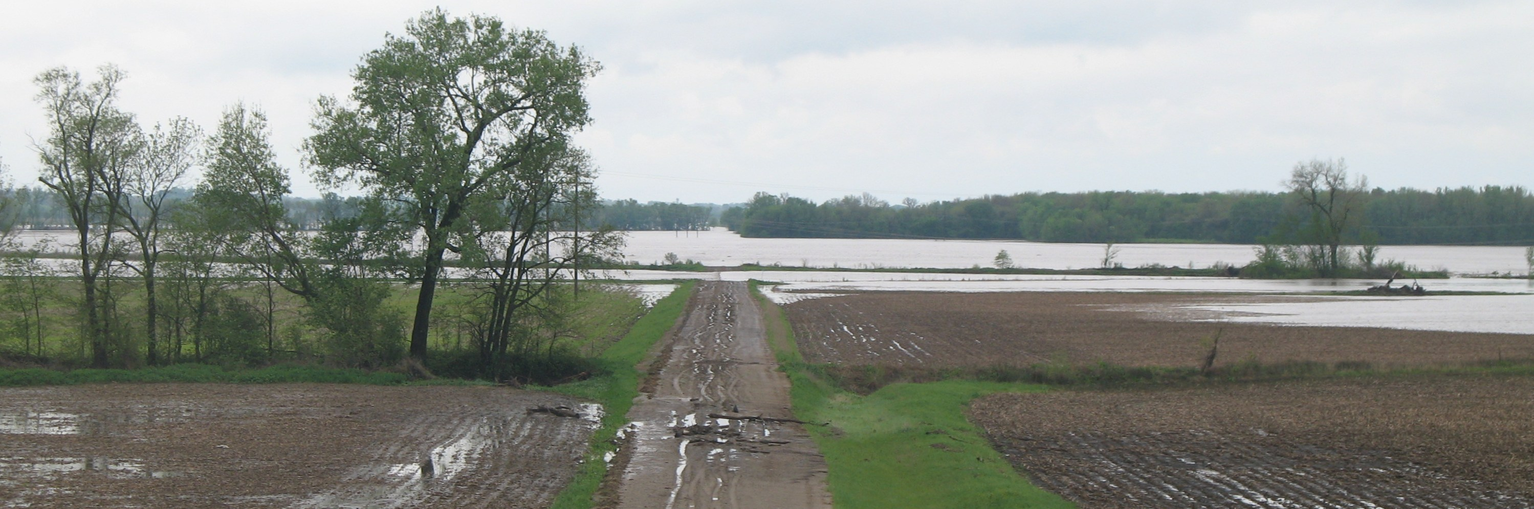 en:102 River east of Maryville, Missouri during 2007 flood. Photo by poster in May 2007.